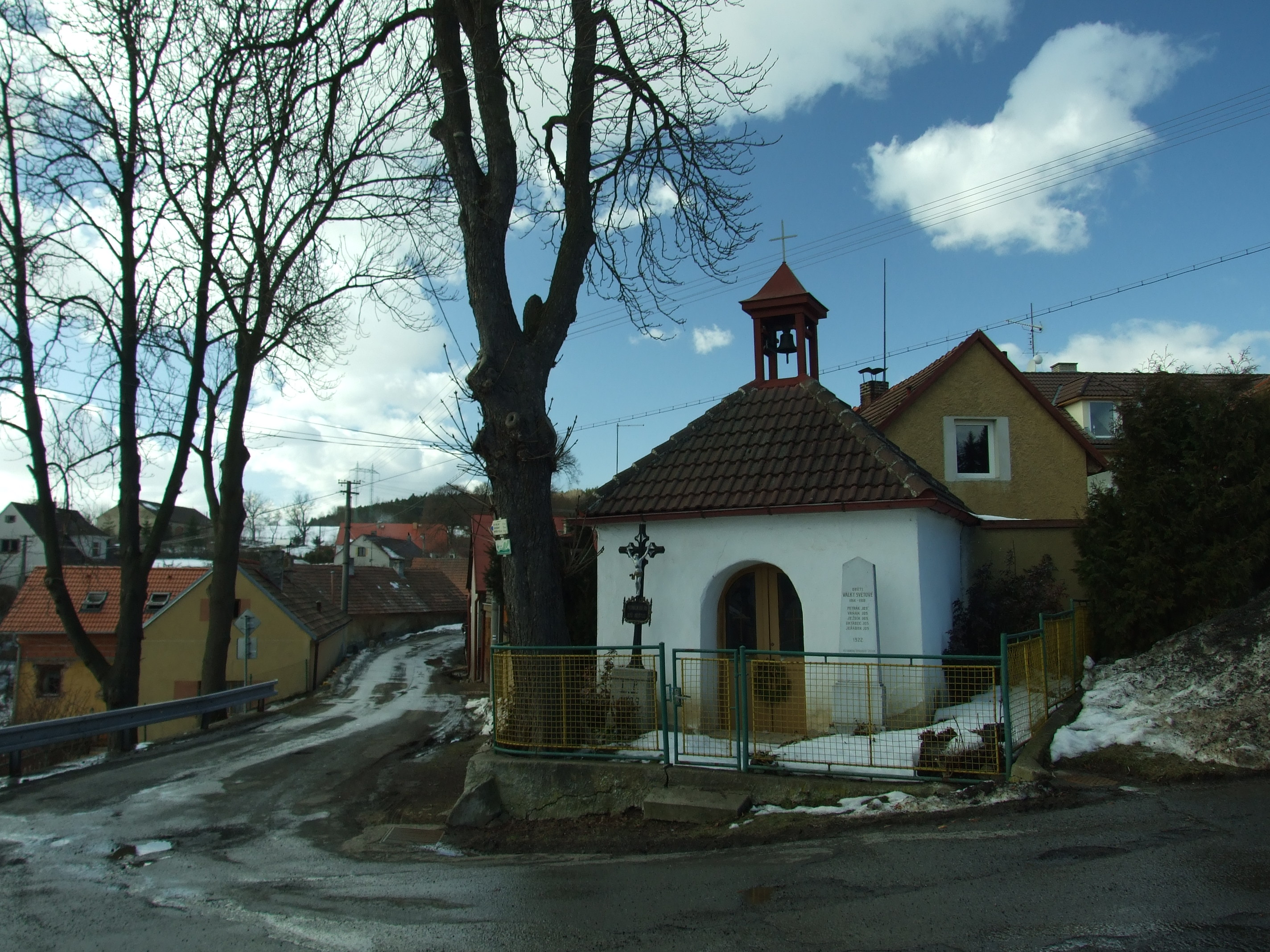 Chapel in Bratřínov village, Central Bohemian Region, CZ